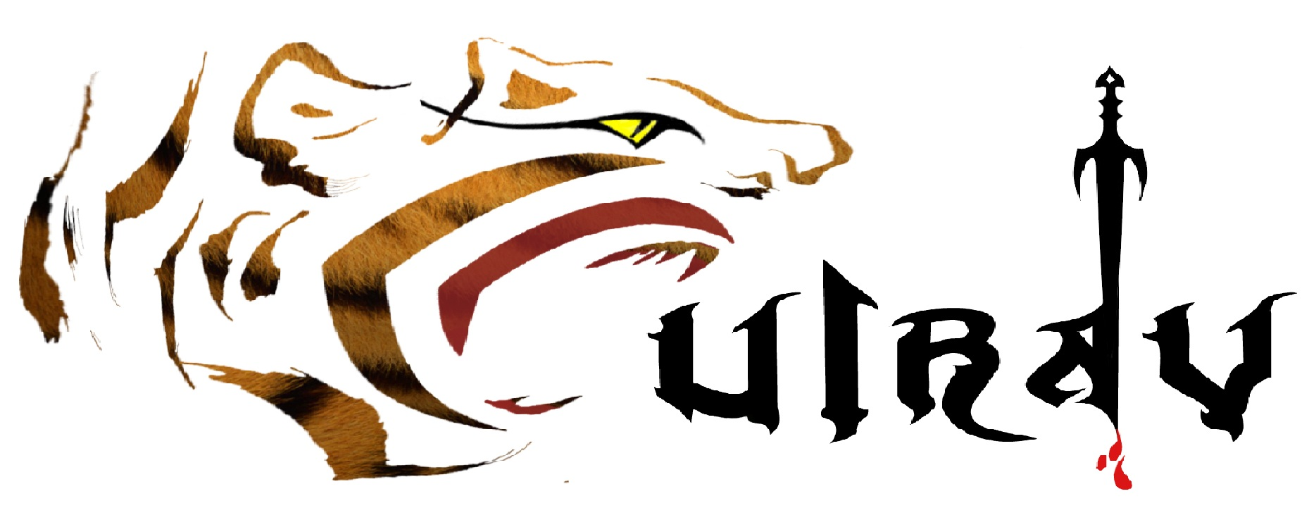 this is the logo of culrav 2012